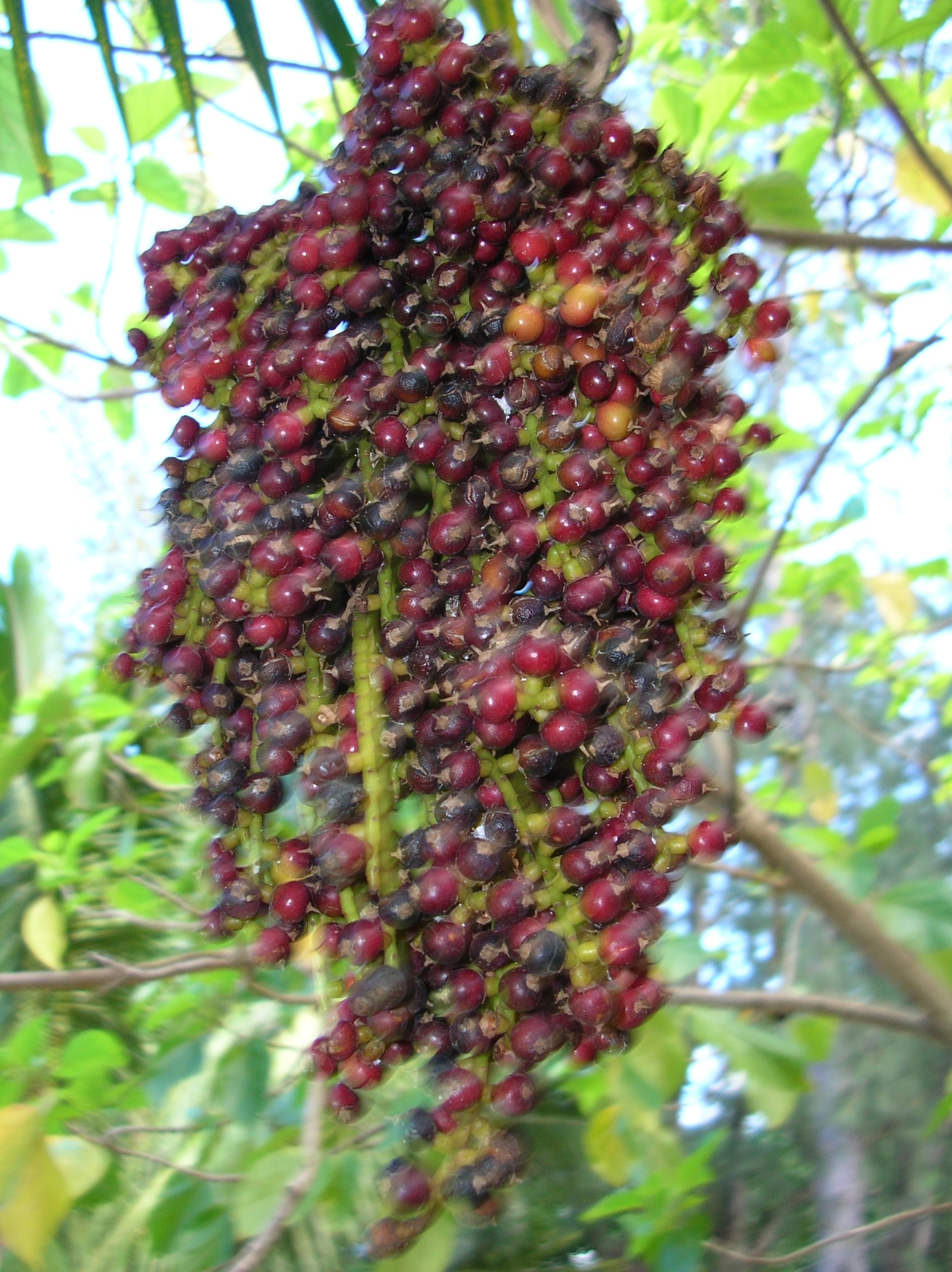 Pritchardia pacifica (fruit). Location: Maui, Flemings Beach